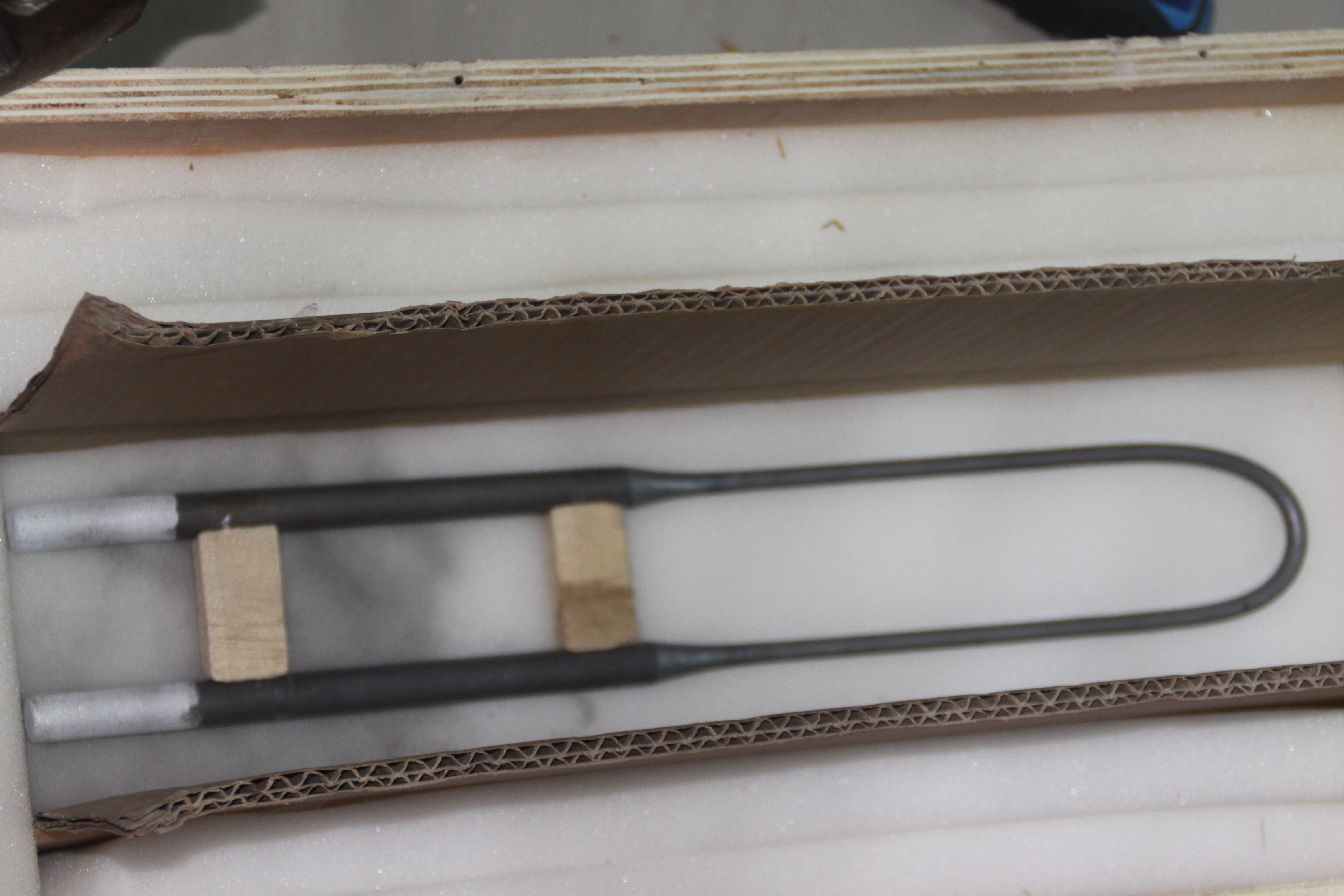 MoSi2 heating element is a kind of resistance heating element basically made of high pure molybdenum Disilicide.It can be widely used in such applications as sintering and heat treatment on ceramics, magnet, glass, metallurgy, refractory,etc.